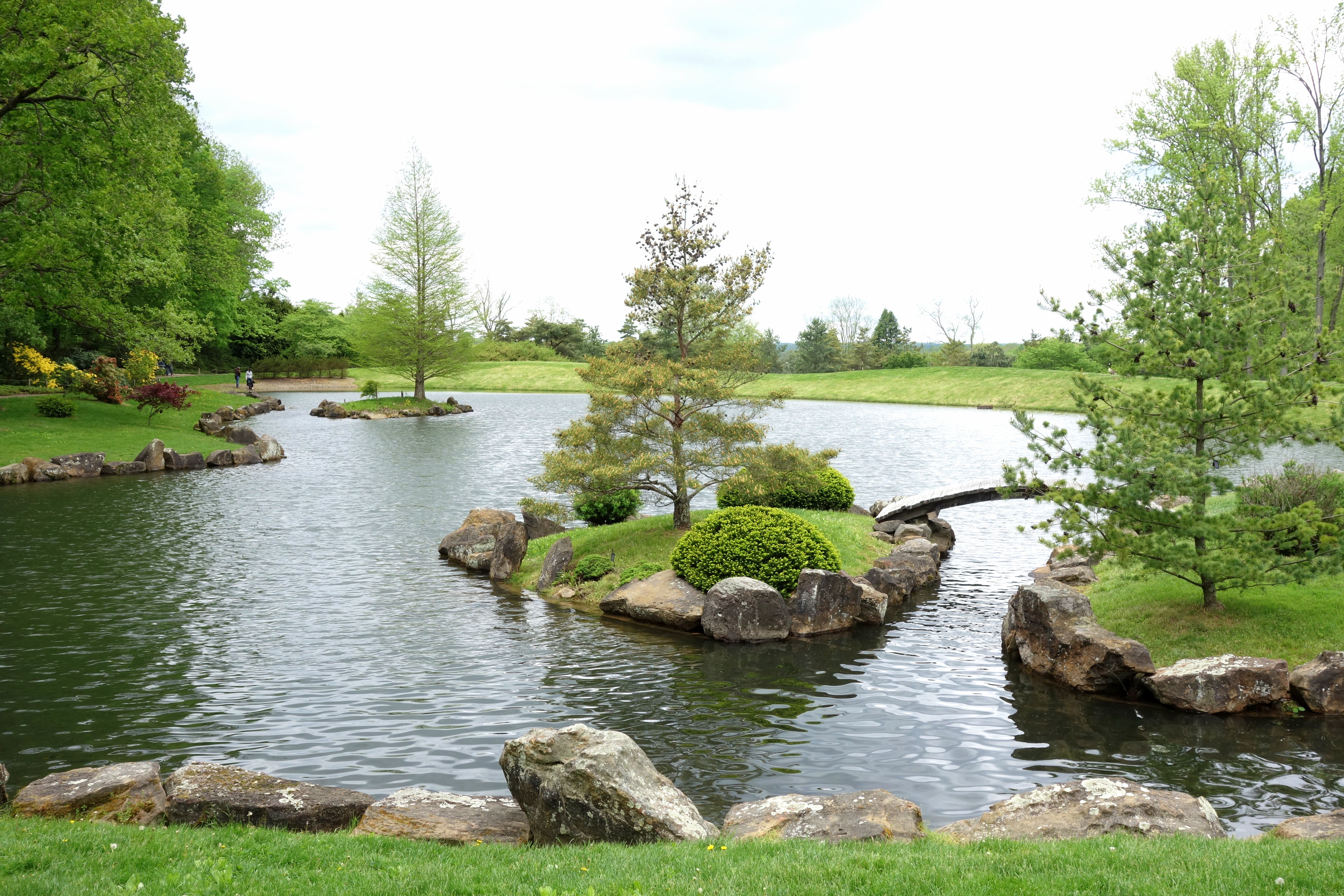 Dawes Arboretum, 7770 Jacksontown Road, Newark, Ohio, USA.